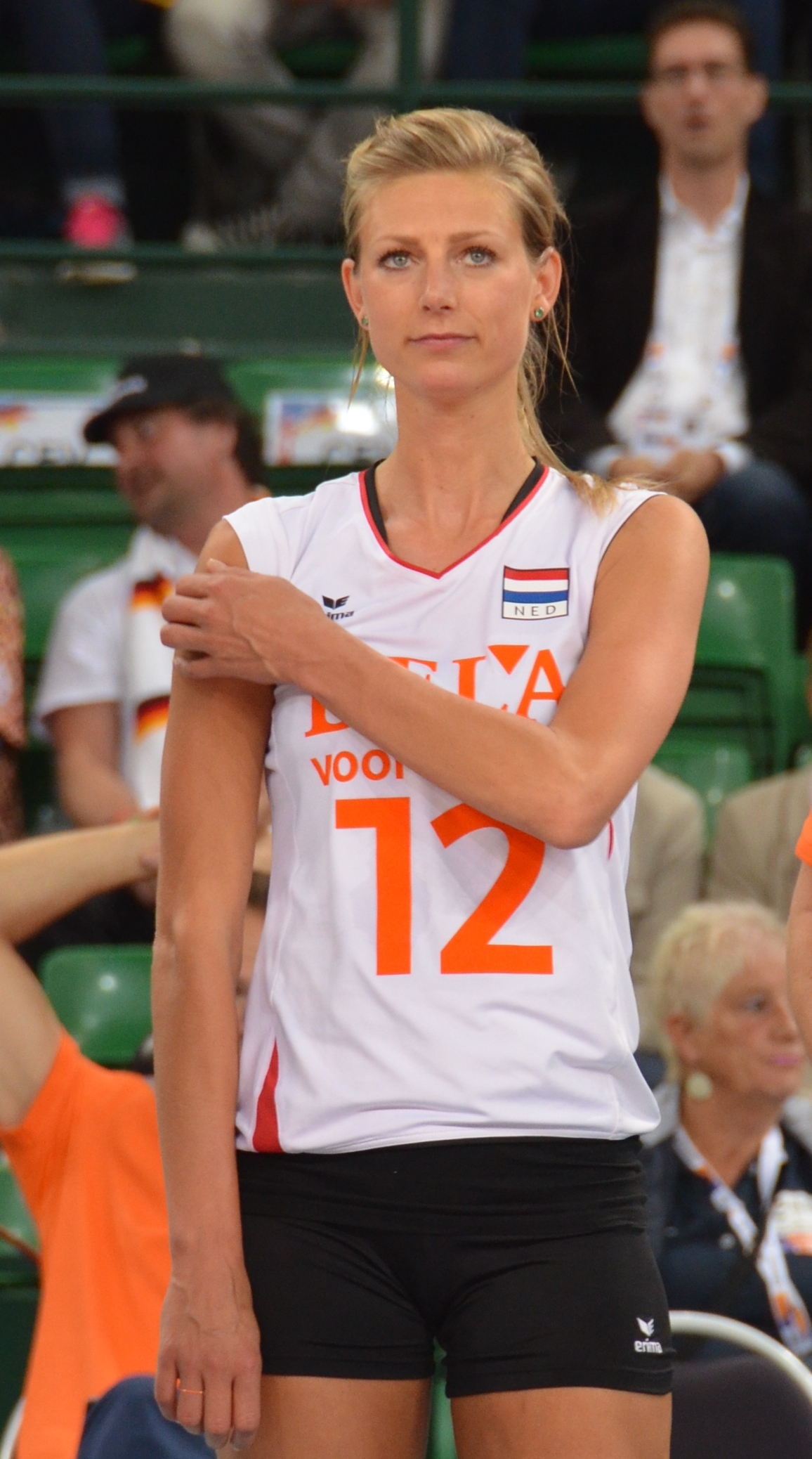 Manon Flier, volleyball player from the Netherlands during European Championships 2013